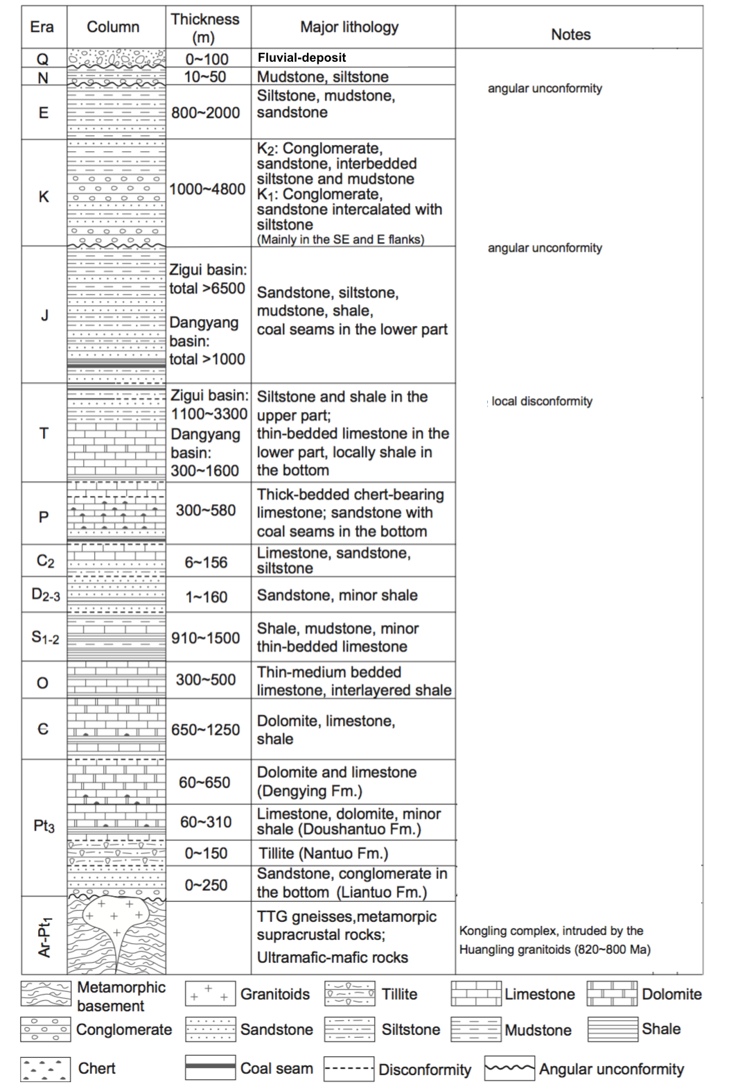 This shows stratigraphic column of Huangling Complex from Archean to Cenozoic